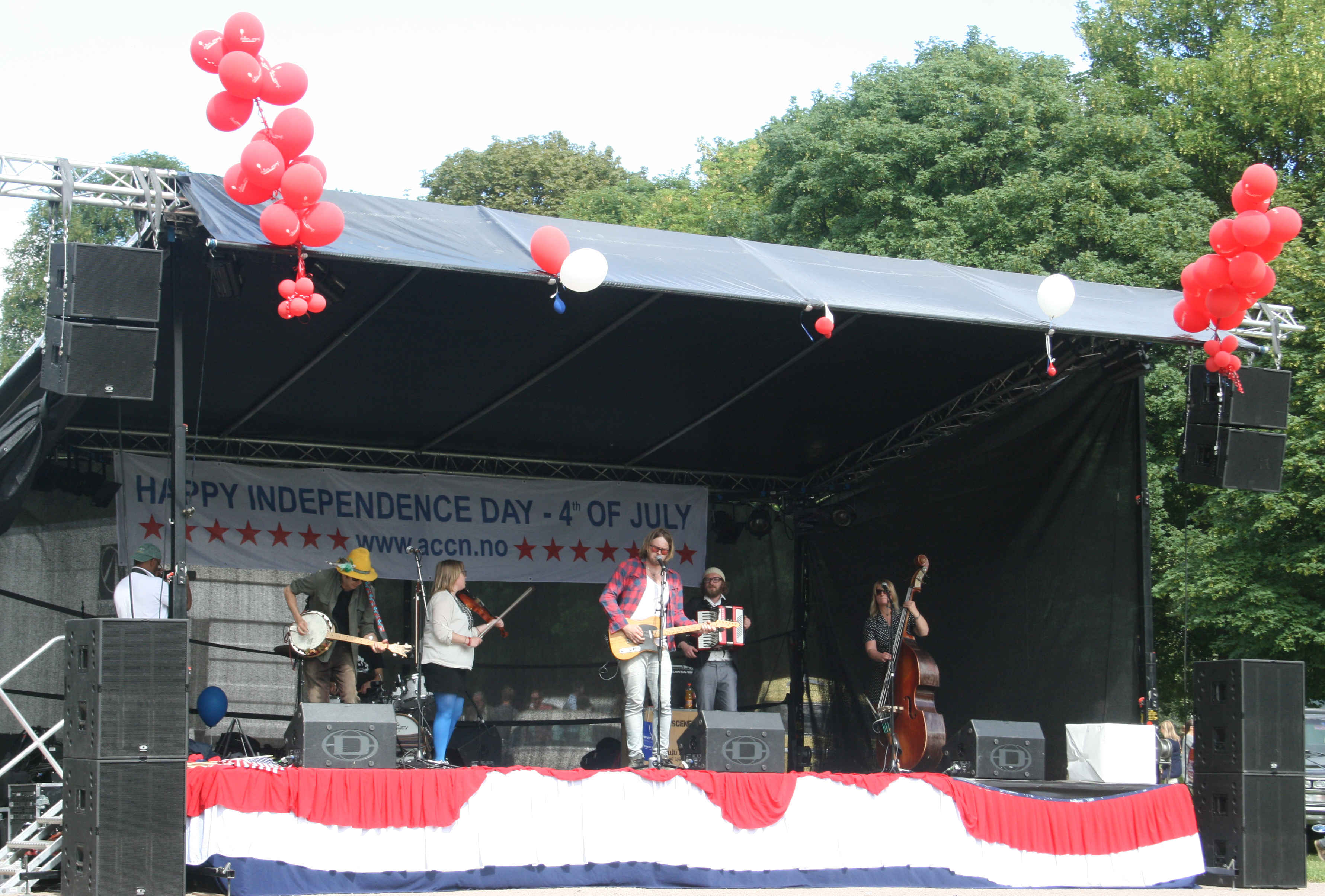 US Independence Day July 4th celebrated in Oslo, Norway (June 29th, 2014)